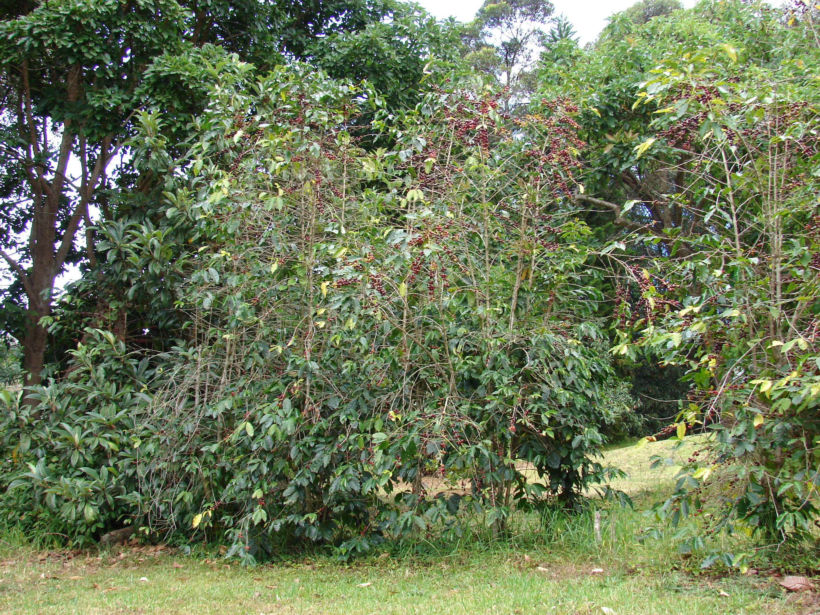 Coffea arabica (fruiting habit). Location: Maui, Olinda